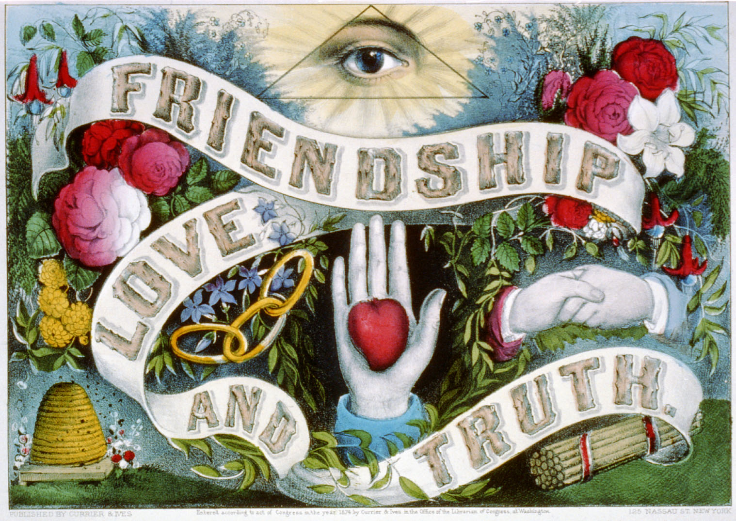 Currier & Ives symbolic print "Friendship, Love, and Truth". Includes symbolic Eye of Providence, handshake, beehive of industriousness, sticks which can be easily broken individually but not when tied together in a bundle, various different flowers, etc. TITLE: Friendship love and truth CALL NUMBER: PGA - Currier & Ives--Friendship love and truth (A size) [P&P] REPRODUCTION NUMBER: LC-USZC2-2373 (color film copy slide) MEDIUM: 1 print : lithograph, hand-colored. CREATED/PUBLISHED: New York : Published by Currier & Ives, c1874. CREATOR: Currier & Ives. Publication and other forms of distribution: Most of the images in this collection were published before 1923 (this one 1874) and are therefore in the public domain. A few images were published after this date and may be restricted by copyright.